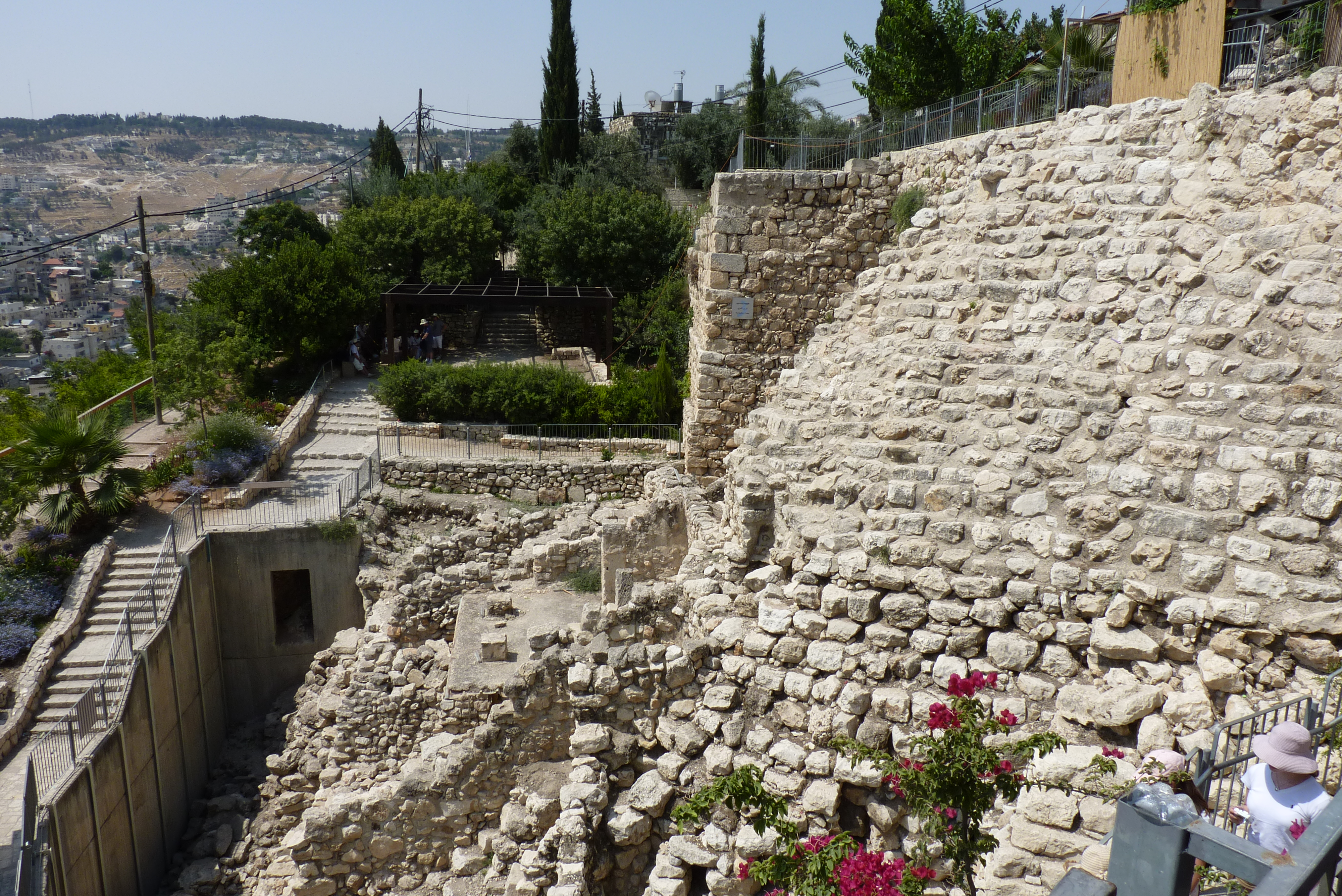 P1110572 City of David, Jerusalem